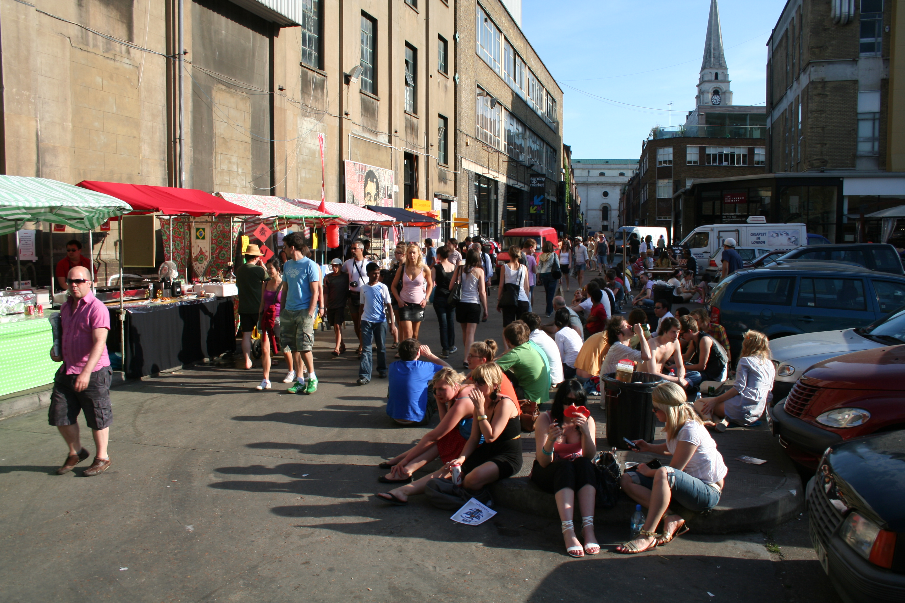 Sunday UpMarket 2008 sunny Sunday in The Old Truman Brewery showing various outdoor food stalls in Ely’s Yard. Photo taken by LiB